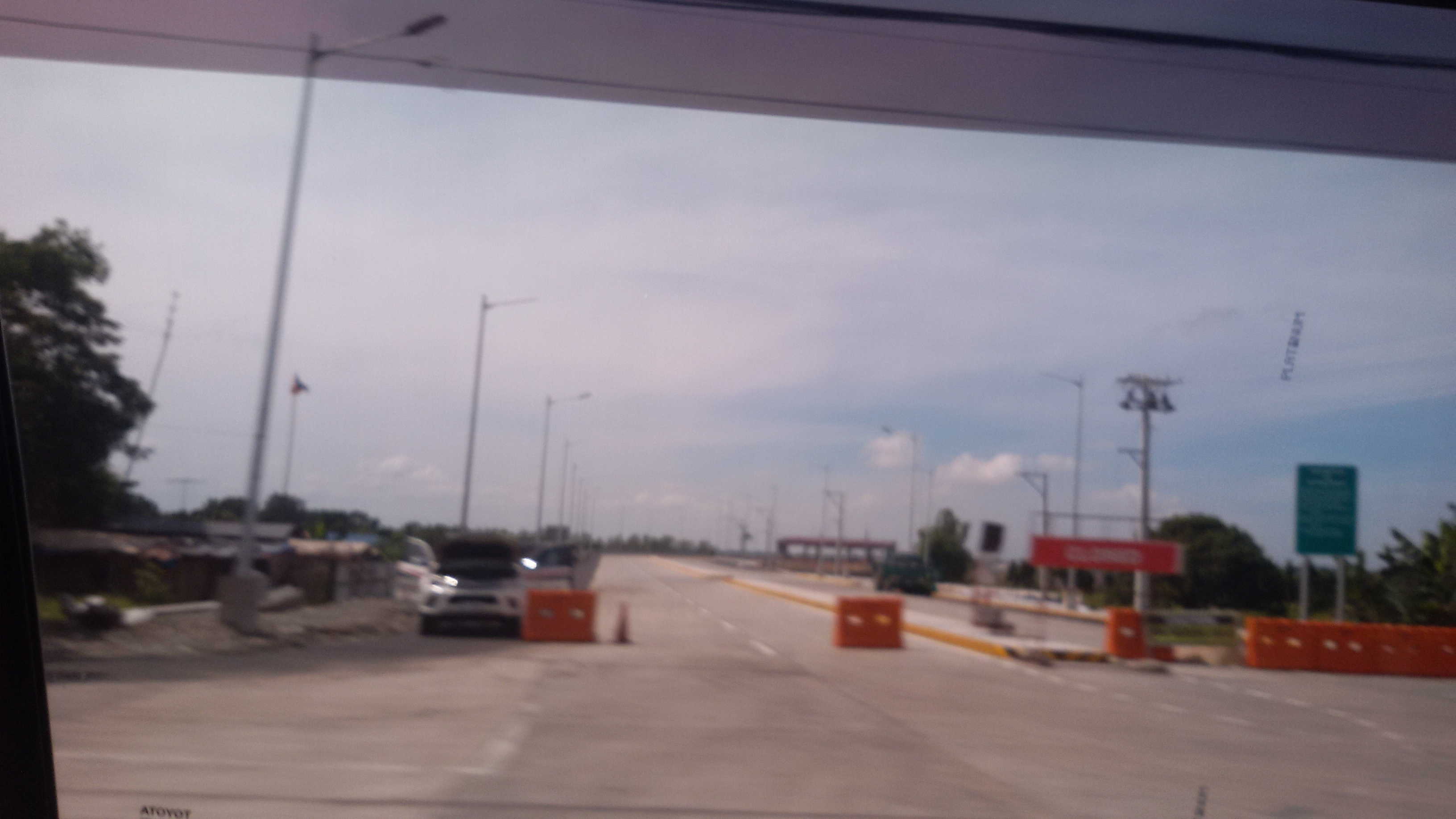 The TPLEX construction of Pozorrubio Interchange in MacArthur Highway in the town of Pozorrubio, Pangasinan